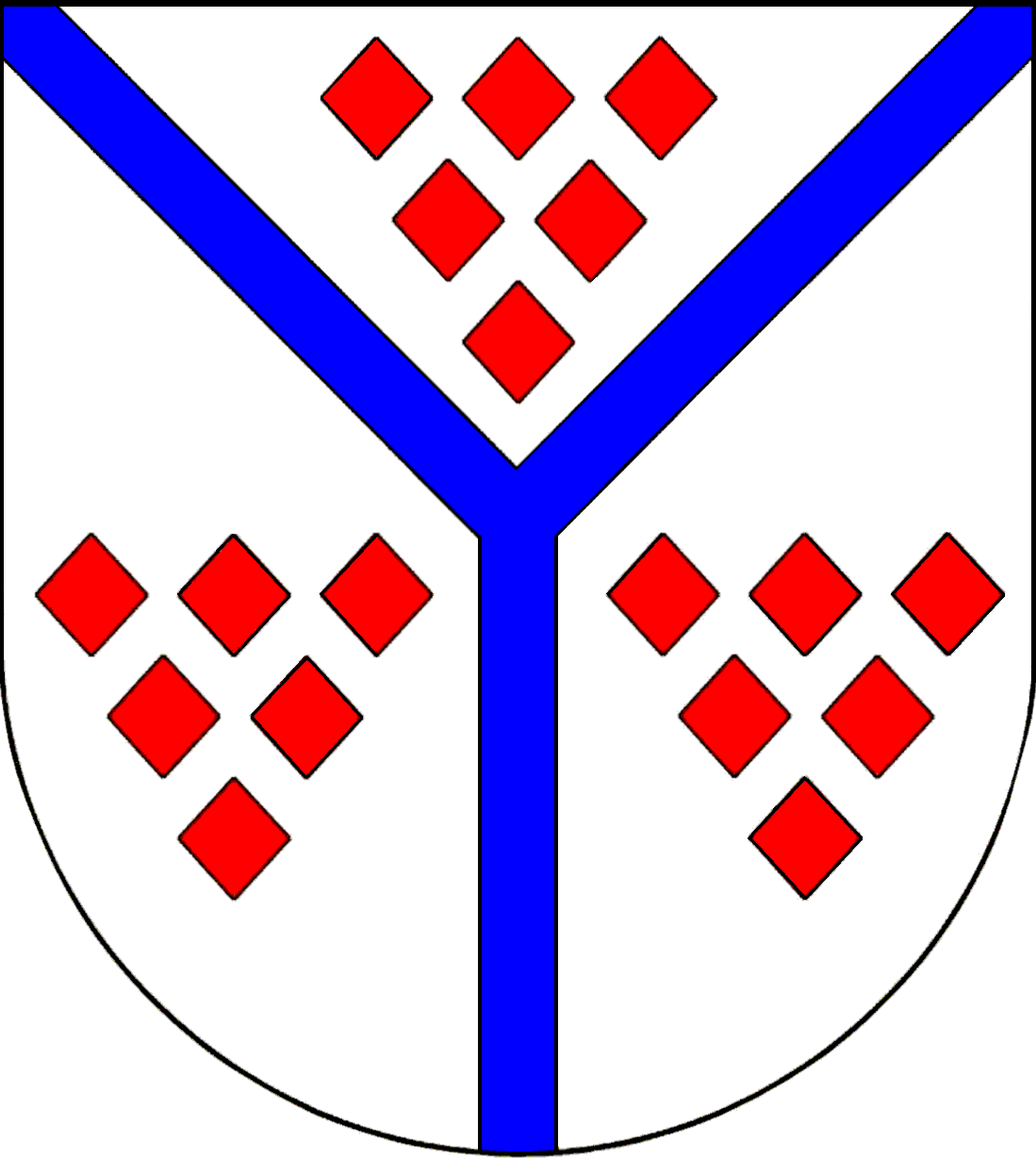 Coat of arms of the former Amt (county) Kellinghusen-Land in Schleswig-Holstein, Germany.